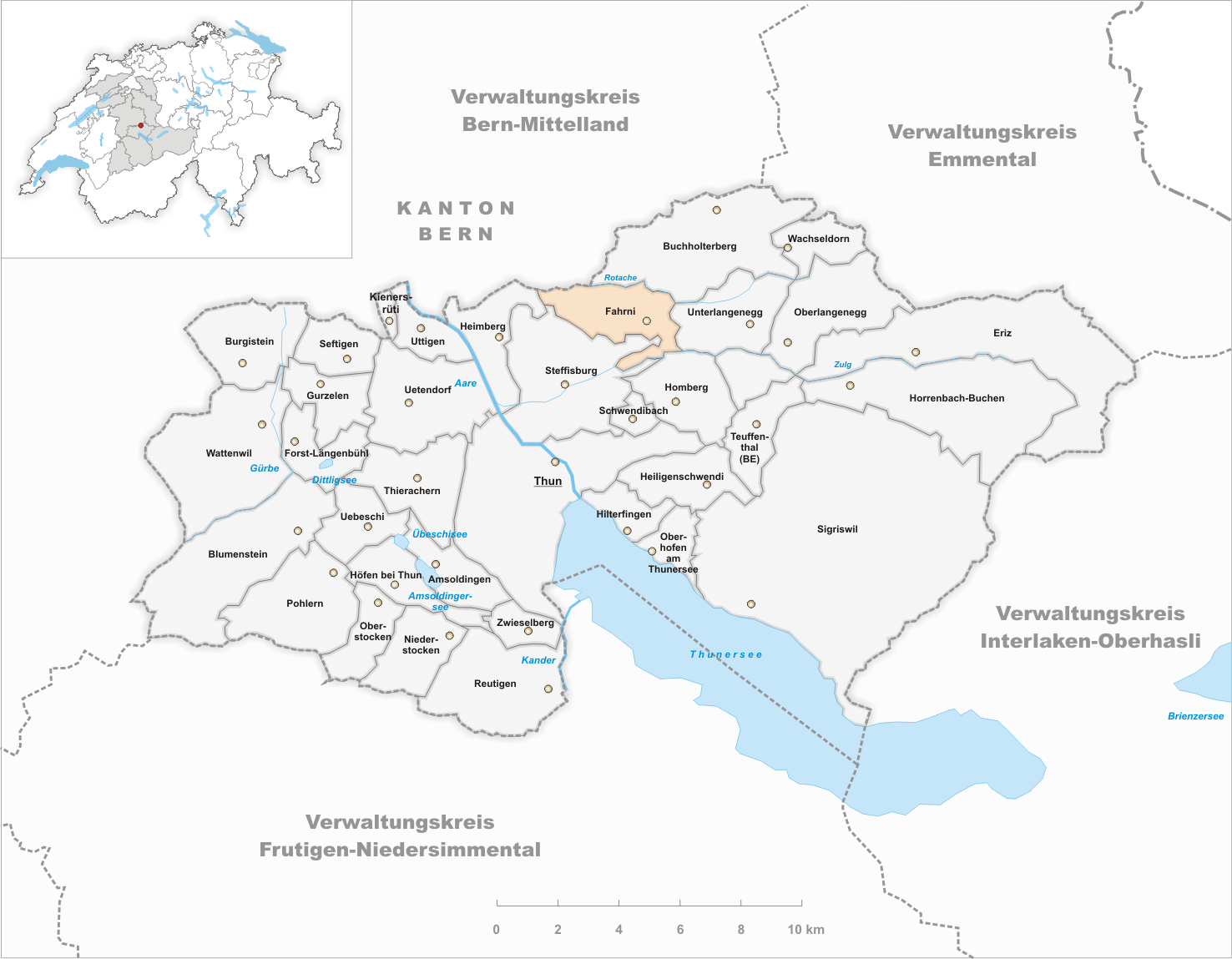 Municipality Fahrni